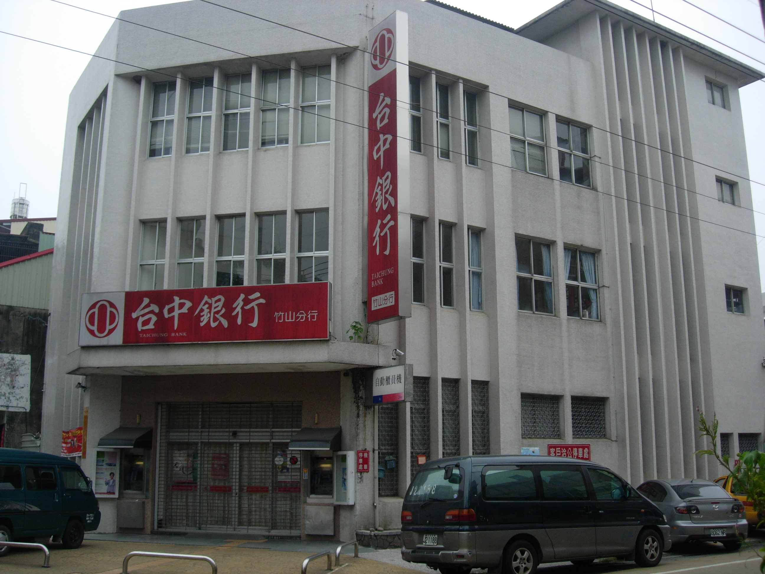 Taichung Commercial Bank Chushan Branch